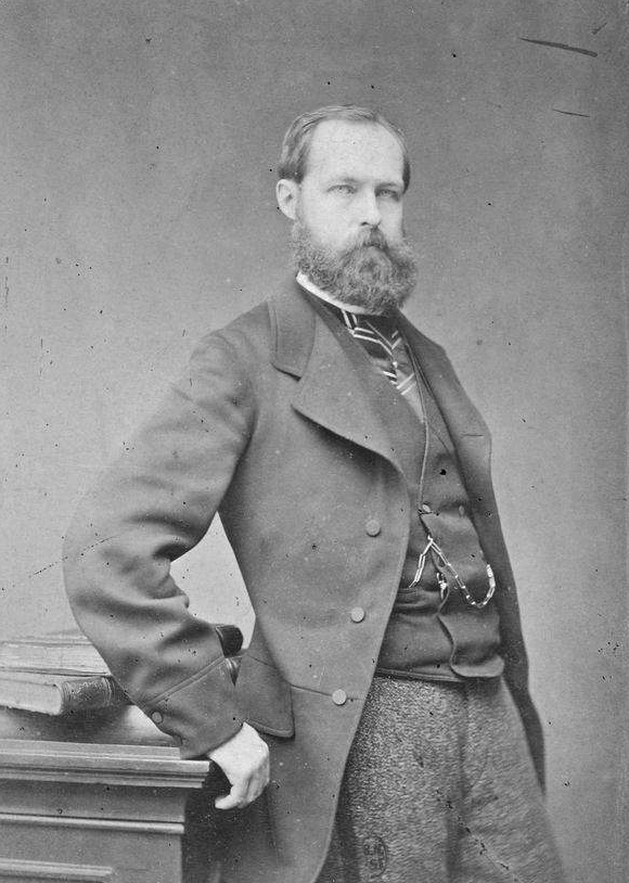 Philippe d'Orléans, Count of Paris (1838-1894)